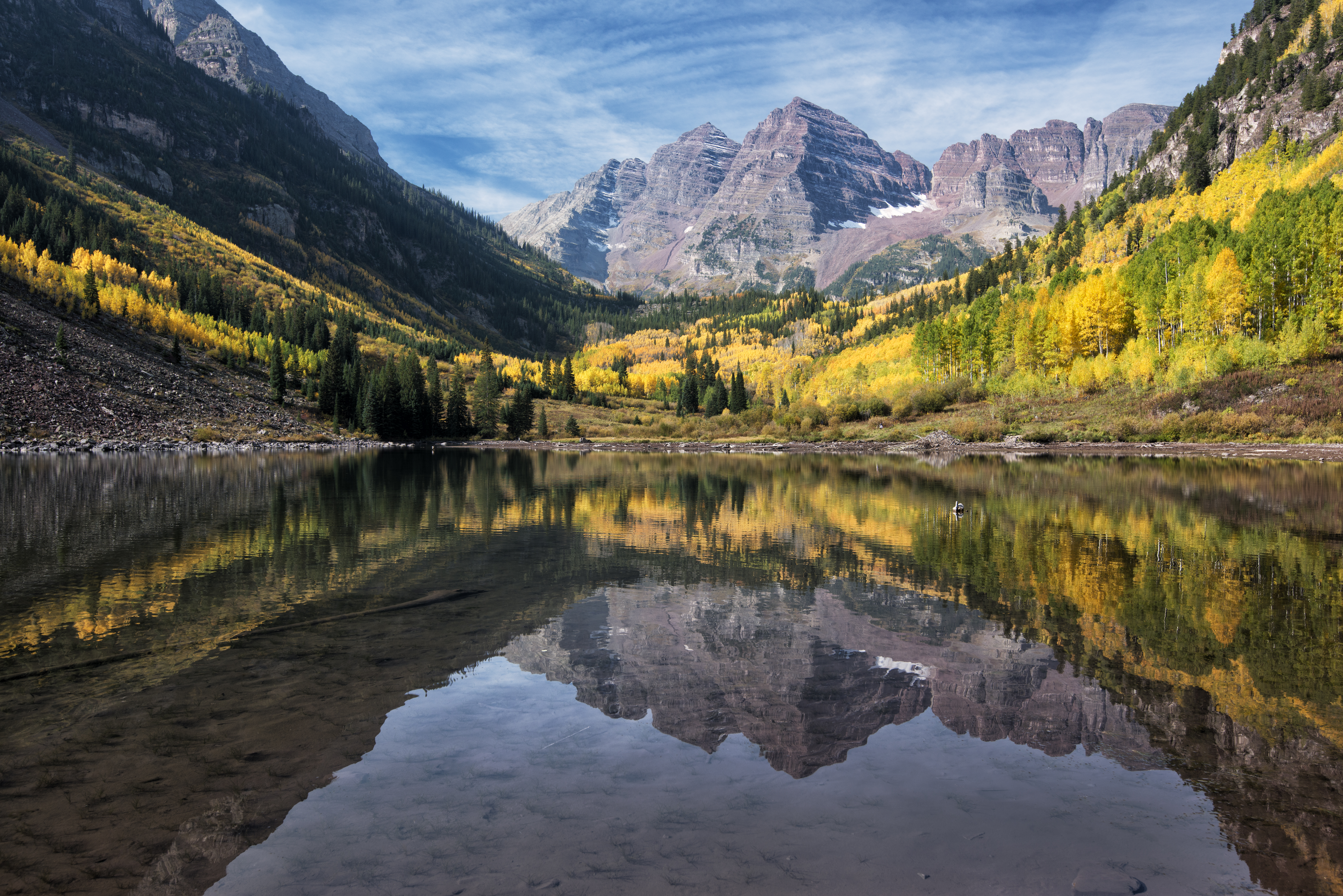 The Maroon Bells area is a popular site for photographers. Because of its location near Aspen, Colorado, and its sheer beauty, it is visited every day by people looking for the classic shot to hang in a gallery. It's only a hundred yards from the parking area to the lake shore, which has plenty of room to accommodate a large number of shooters. You have to take a shuttle bus out to the lake during tourist season. After Labor Day, the shuttle buses run only on weekends for the rest of September. I was there mid-week and got to drive out to the lake. Arriving late in the afternoon, I noticed right away that the smoke from a forest fire in the northwest was going to prevent any decent photography. Still, there were about twenty photographers lined up along the shore. I hung around, hoping for some special atmospherics around sunset, but it didn't happen. There are several campgrounds along the road as well as an overnight parking area at the lake. So I pulled into the last slot there and spent the night. The next morning I was up at 5 and out on the shore. The only other person was a fellow from Australia. I was hoping for some star shots, but the moon was on the other side of the sun and it was too dark to get any detail on the land. As the sun rose, it appeared that much of the smoke had blown away. I spent several hours waiting for the light to come to the trees and hoping that the water would calm for some good reflections. It would do so occasionally, then the wind would pick up and the surface would get choppy again. There were probably about 50 people out along the shore taking photos or just watching. Although conditions were never perfect, I got a few pleasing shots. Here's one.